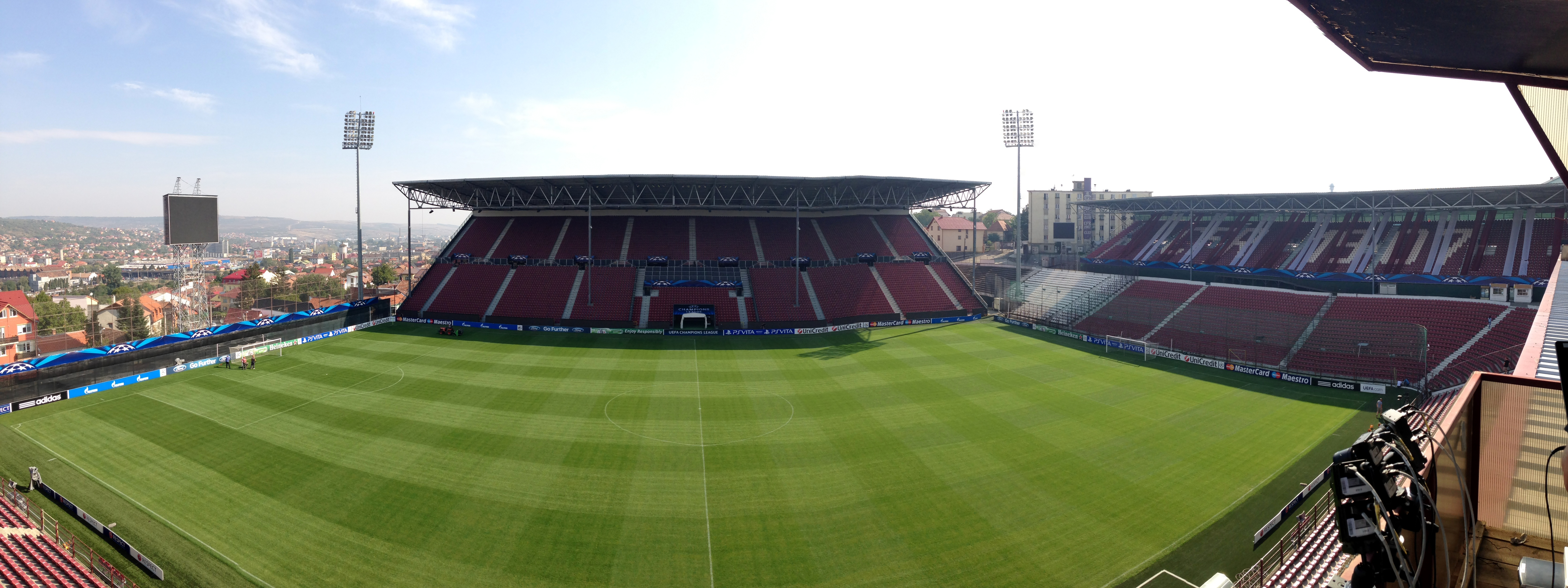 The Dr Constantin Radulescu Stadium in Cluj-Napoca ahead of CFR Cluj v Manchester United in the Group Stage of the 2012/13 UEFA Champions League.